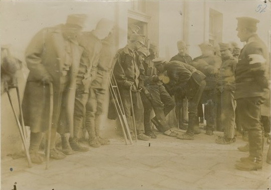 Bulgaria in World War I